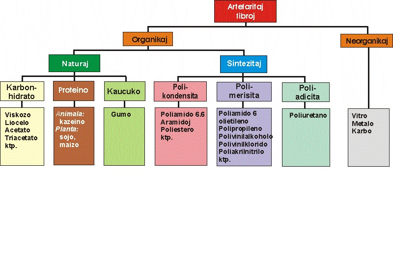 Grouping of man-made fibres